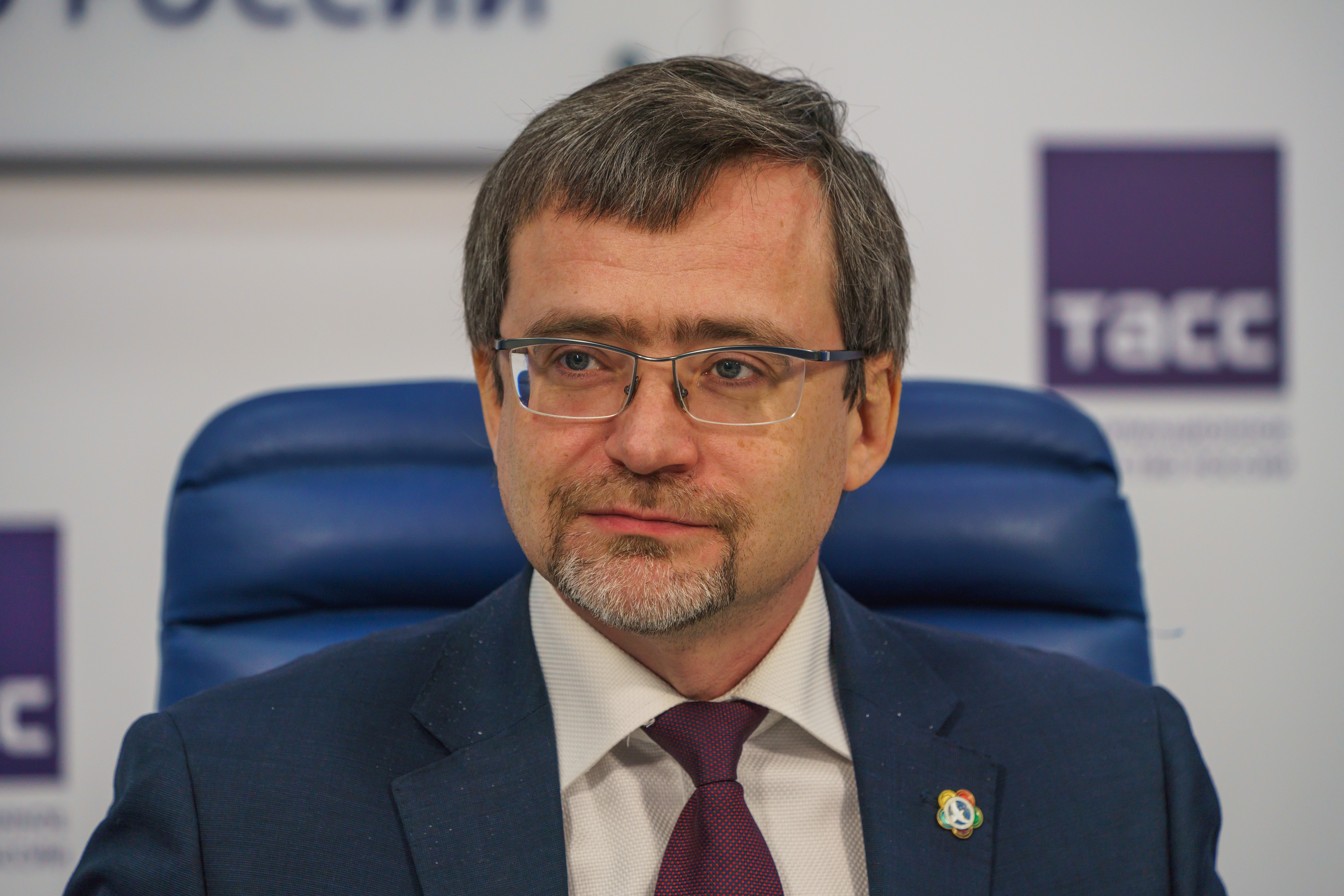 Valery Valeryevich Fedorov (b. 1974) is head of Russian Public Opinion Research Center. Photo taken at TASS press center, Moscow.